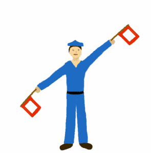 Letter L of the nautical semaphore flag signalling system Source: Martin Hawlisch (User:LosHawlos) My own drawing done in gimp First uploaded to de: in jun-2004